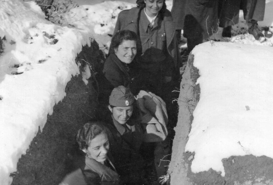 Fighters of Democratic Army of Greece in trenches. This media file is produced by Wikipedian in Residence in Category:Wikipedian in Residence at DARM in 2016.